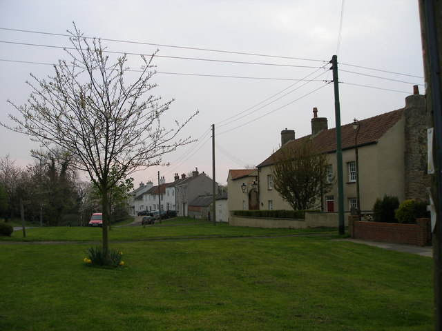 The Green at Dalton Piercy, nr Hartlepool, County Durham, England